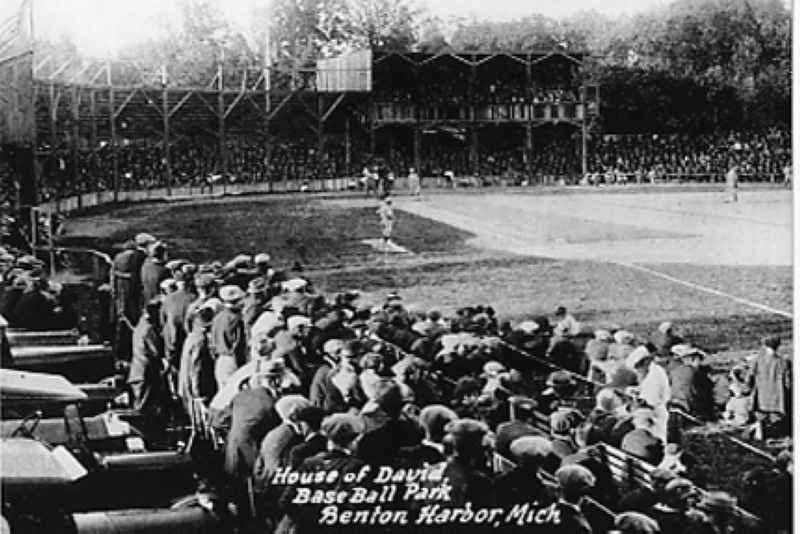 Stadium for the House of David traveling baseball team from Benton Harbor, Michigan. Photo taken in 1925.